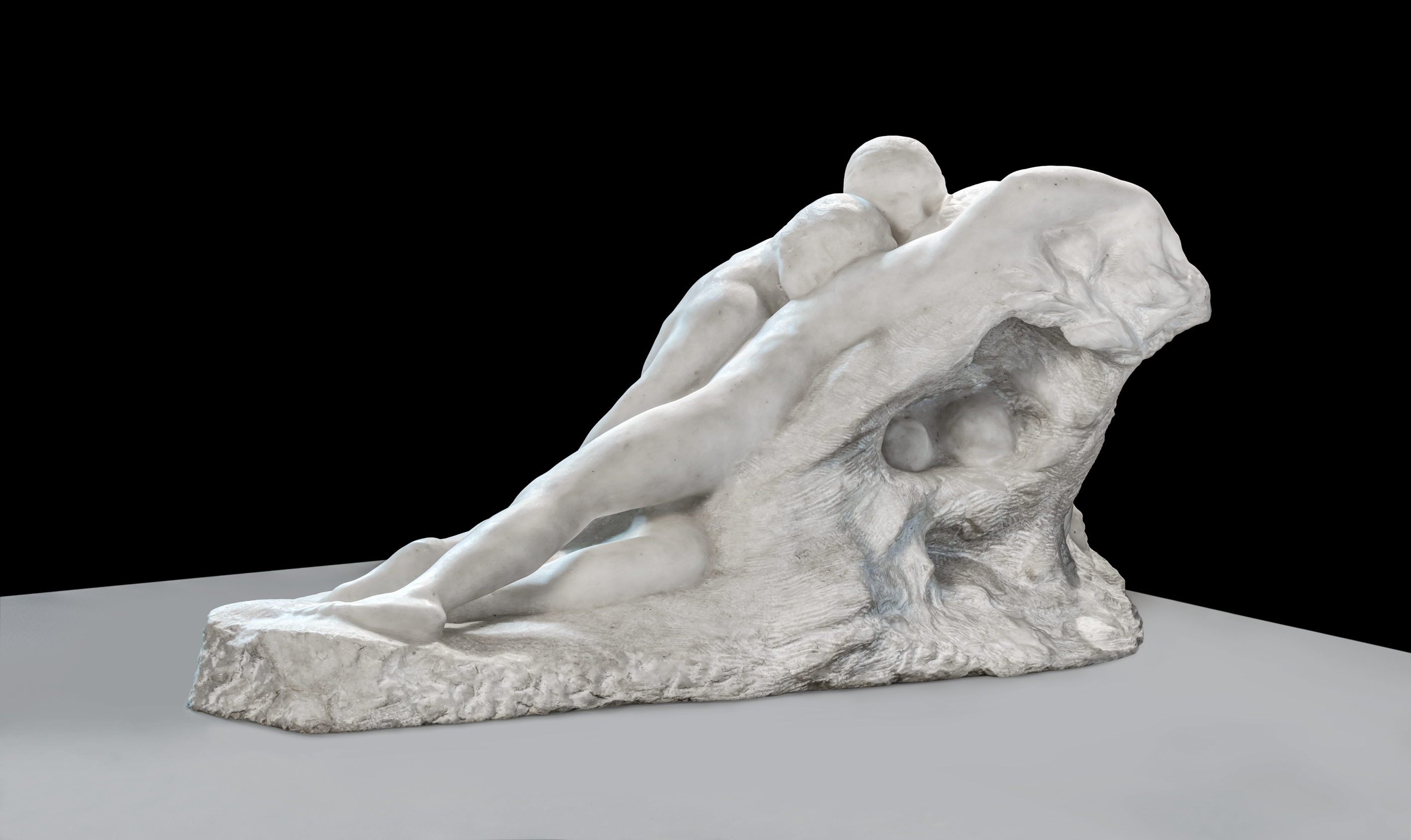 the Roman gods